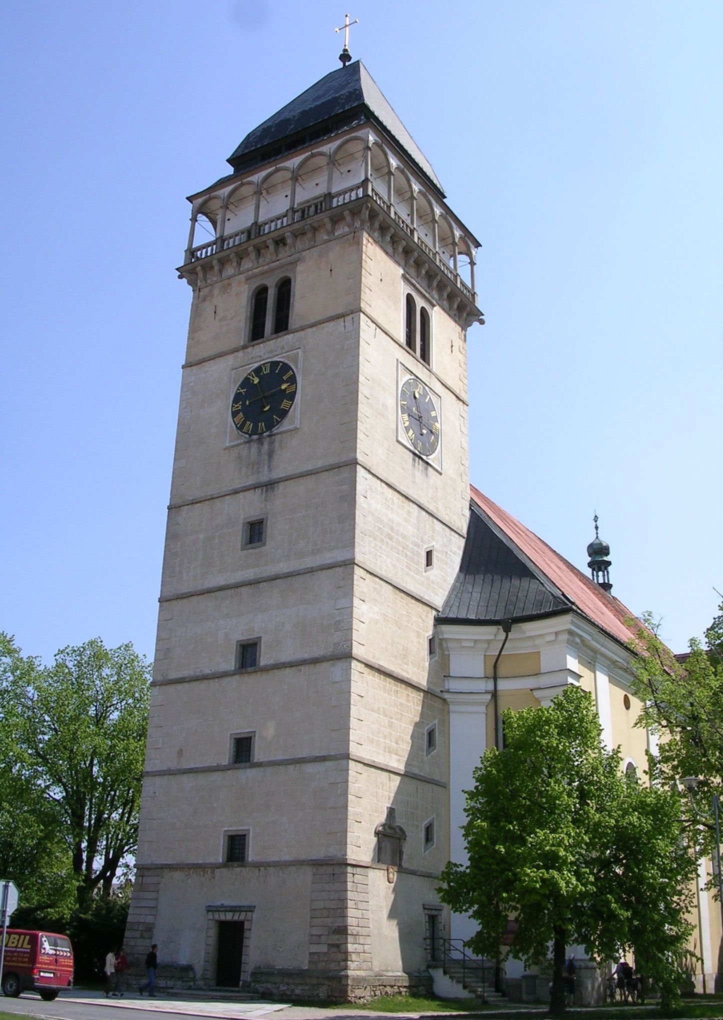 Dačice, South Bohemian Region, the Czech Republic.